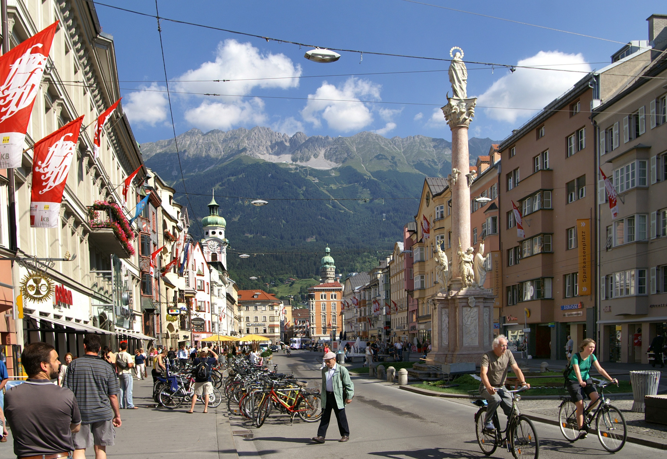 A part of Maria-Theresien-Straße in Innsbruck.